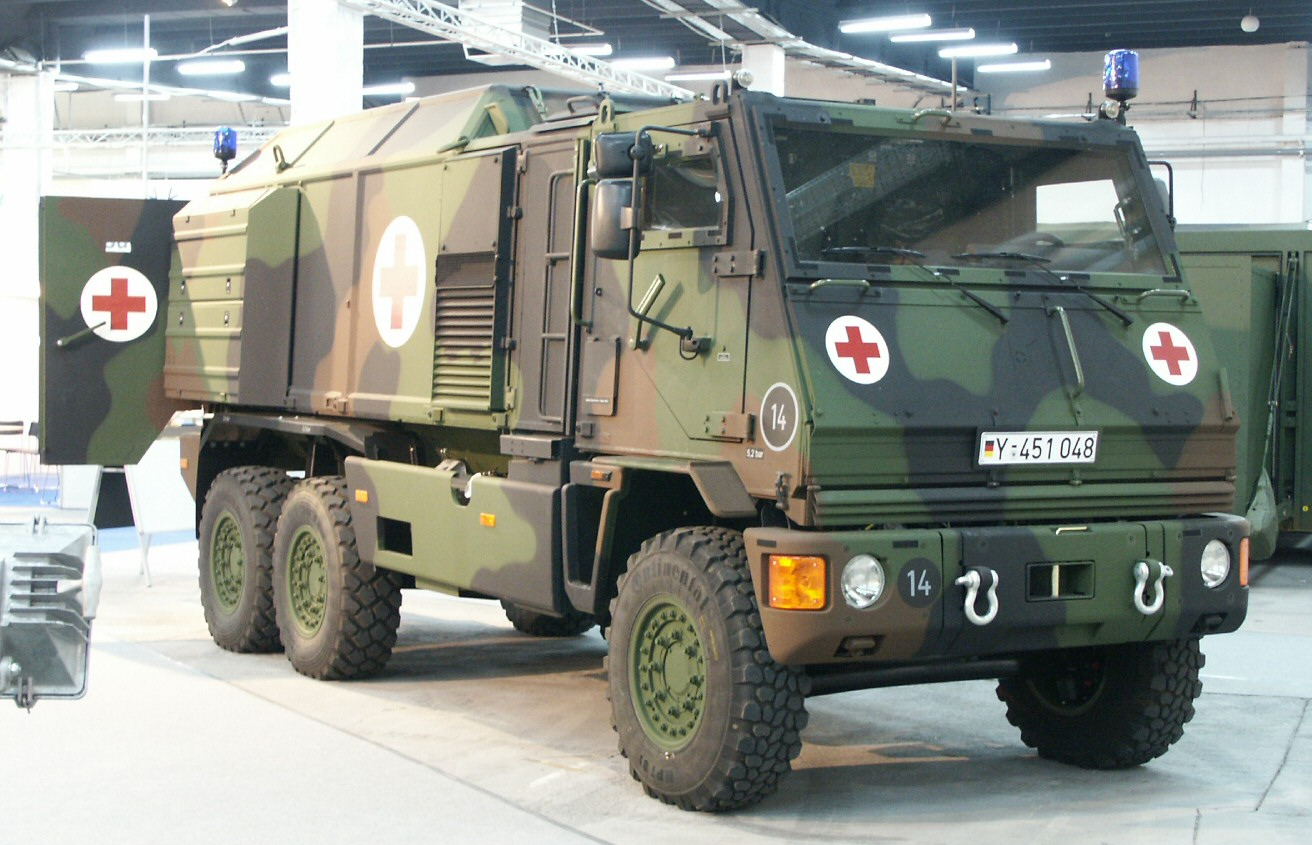 German Army Duro IIIP ambulance.